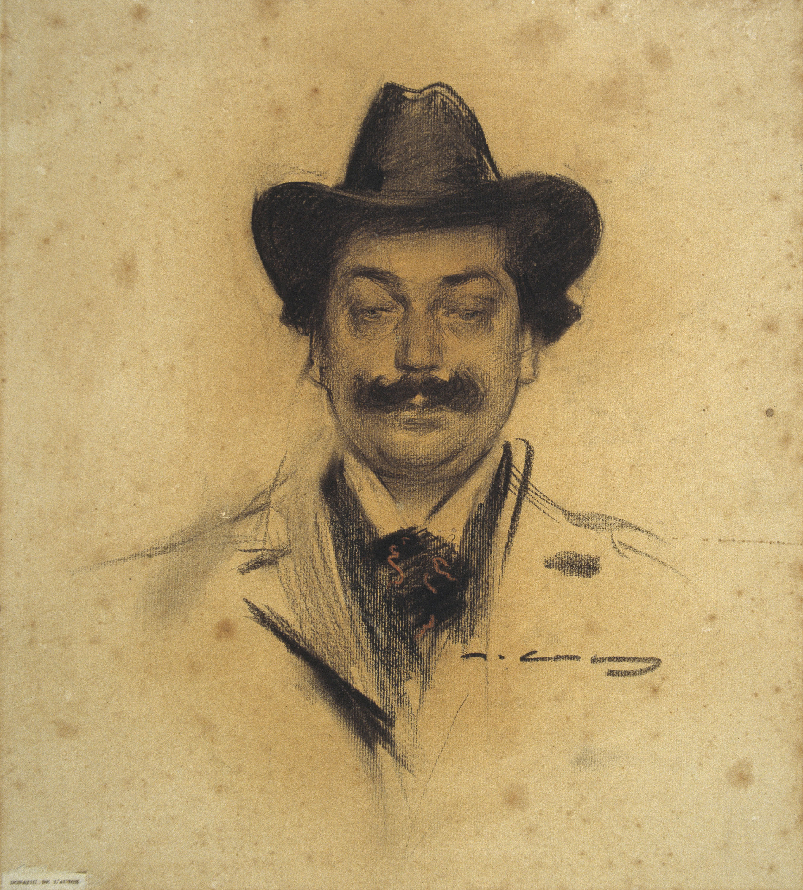 Portrait by Ramon Casas conserved at MNAC in Barcelona. Imagen 025